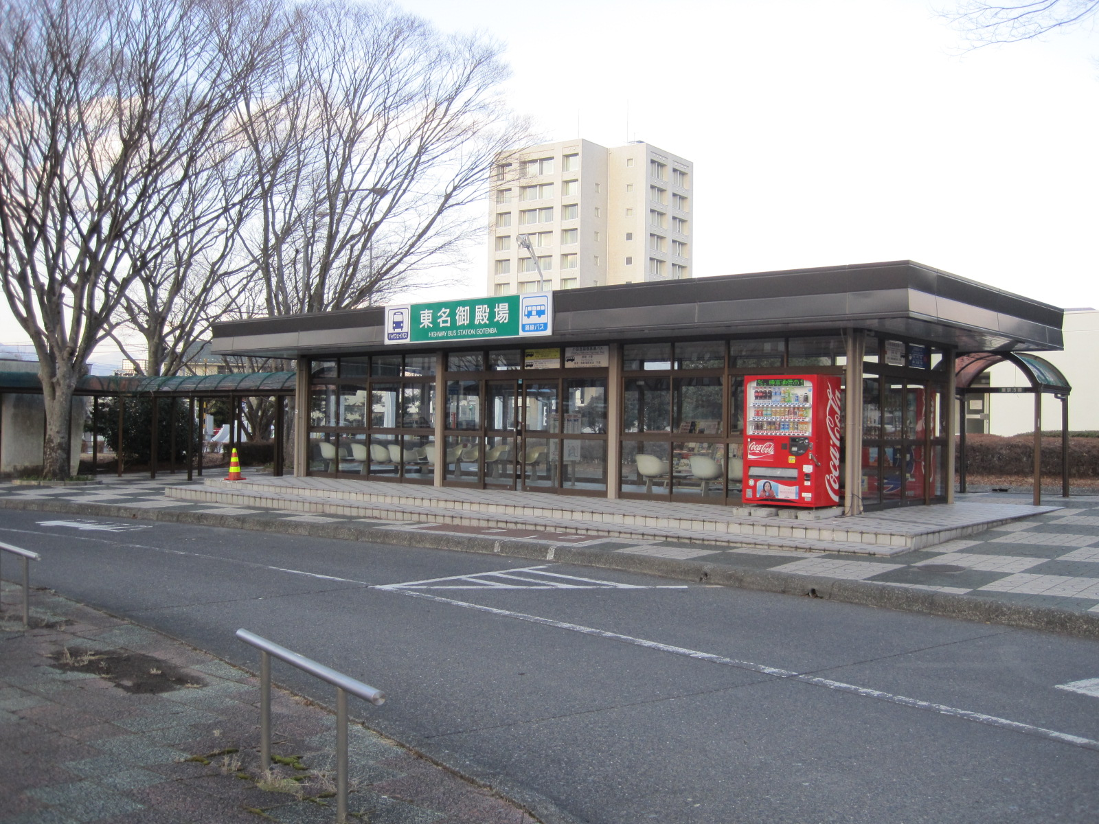 Tomei Gotemba Interchange Bus Station